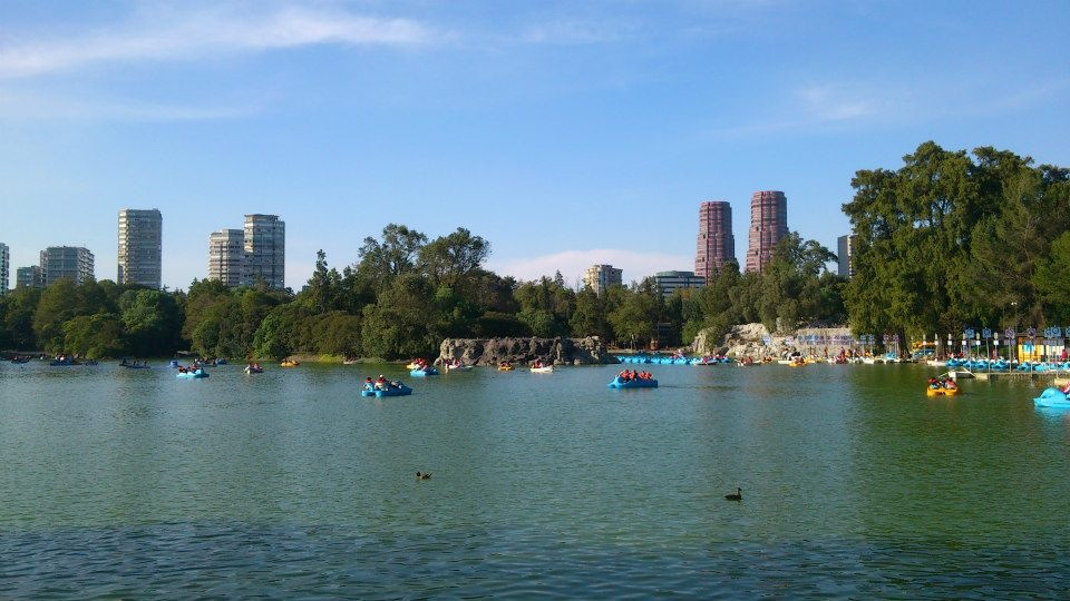 Panoramic photo to Lake of Chapultepec, Mexico City